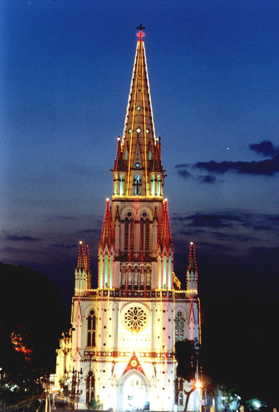 St. lourdes church,Trichy